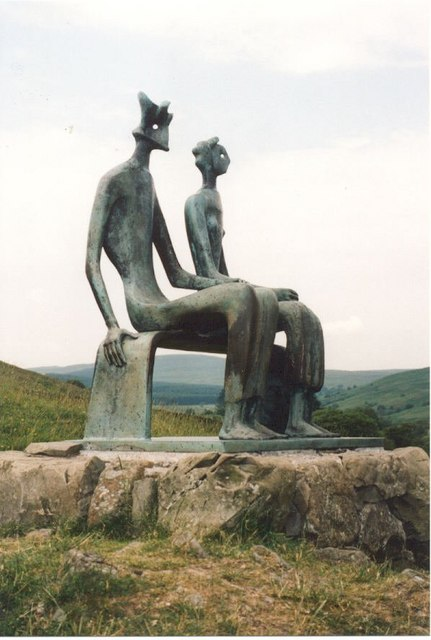 Henry Moore's 'King and Queen' in the Glenkiln Sculpture Park